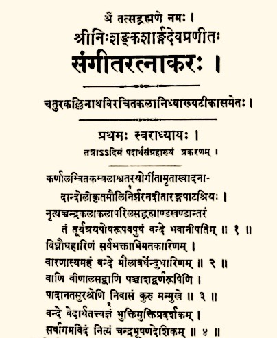 One of the most important, comprehensive treatises on music theory from 13th century India. It is voluminous, has 7 chapters and discusses music, instruments and dance. The image shows the first four verses of the first section of the first chapter. These express reverence for Hindu god Shiva and the Hindu metaphysical concept of Brahman. The original author: Sarngadeva Composition date: early part of the 13th century Manuscript re-copied: 1677 (preserved in a Baroda temple) Present location of the original manuscript: Agarchand Bhairondan Sethiya Jain Parmarthik Sanstha, Bikaner Edition published worldwide: 1920